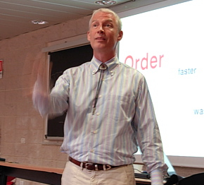 Craig Larman speaking at NYC CLP December 6, 2017